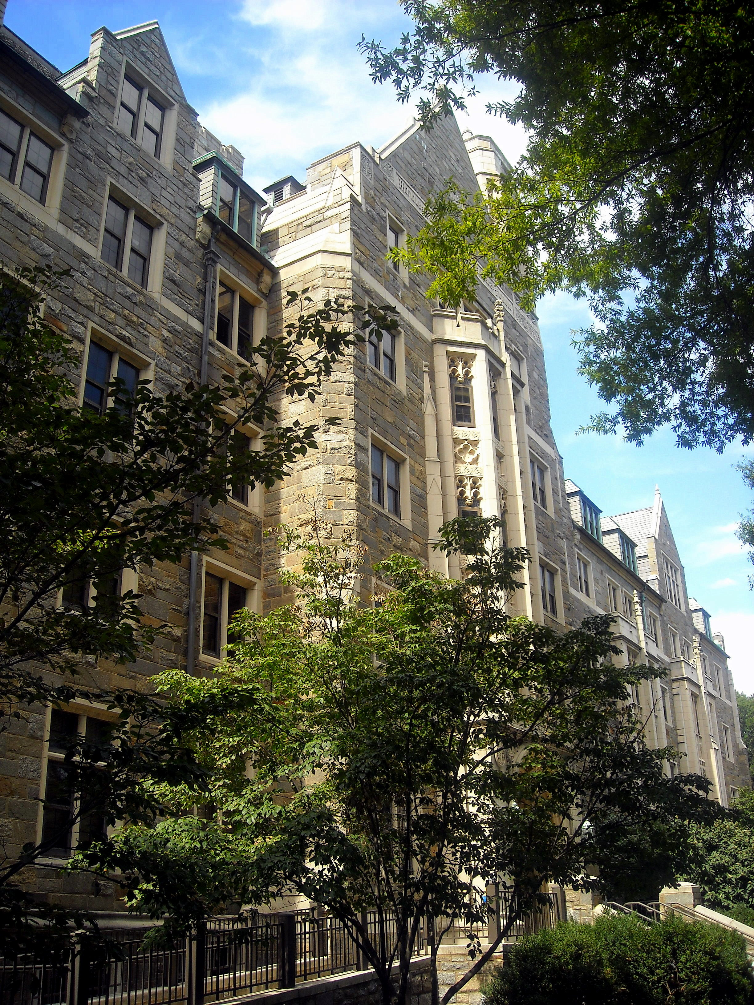 Copley Hall on the campus of Georgetown University in Washington, D.C.